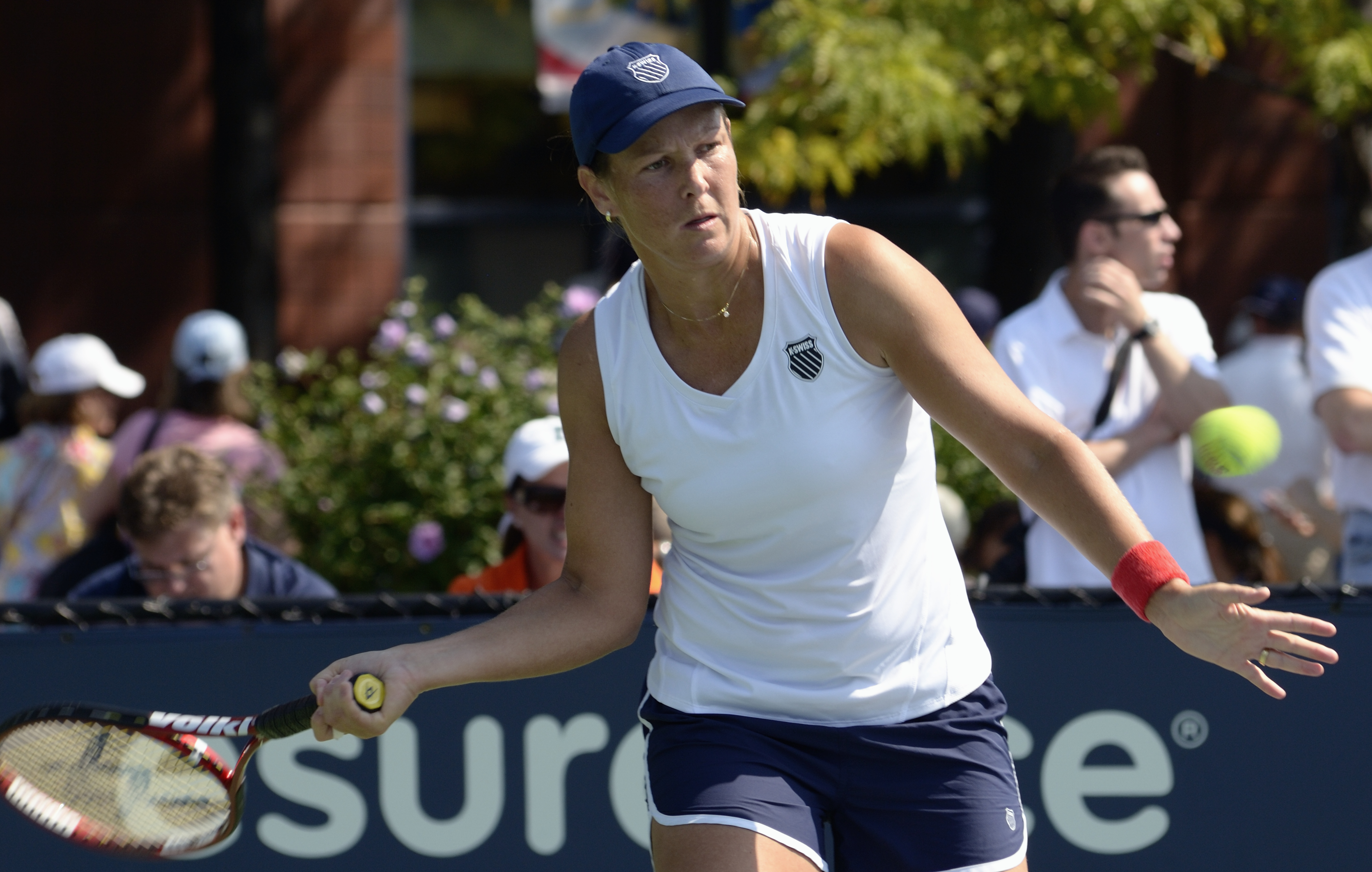 Liezel Huber at the 2011 US Open